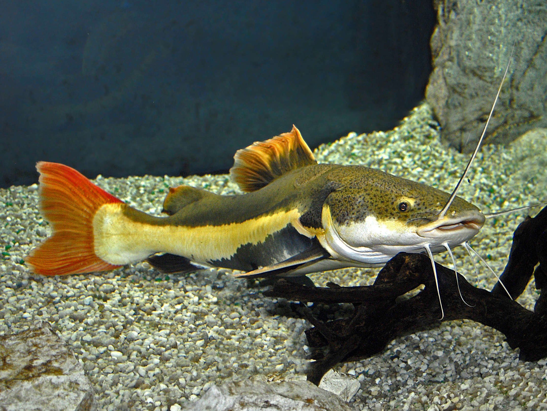 Phractocephalus hemioliopterus, at the Museo di Storia Naturale e del Territorio, Calci (Province Pisa), Italy